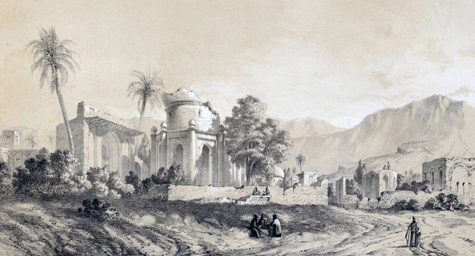 Bishapur